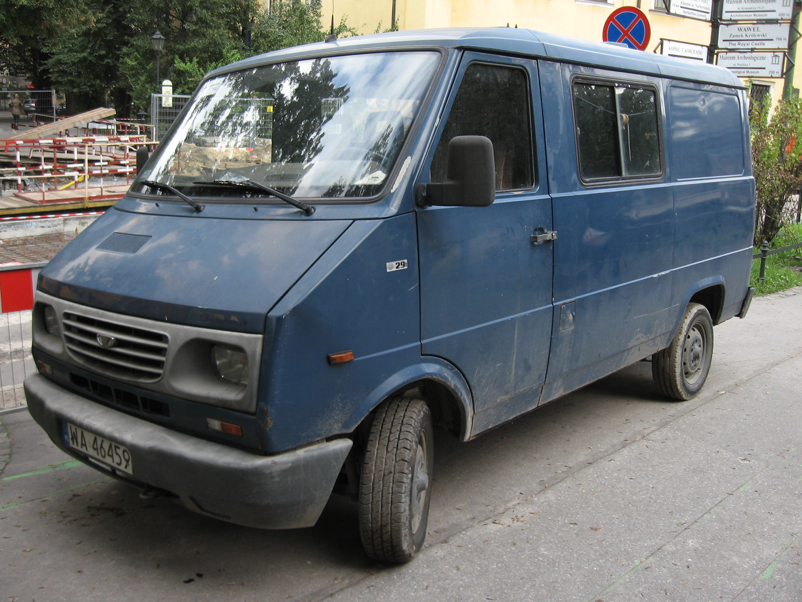 Blue Daewoo Lublin II during reconstruction of Franciszkańska street in Kraków.